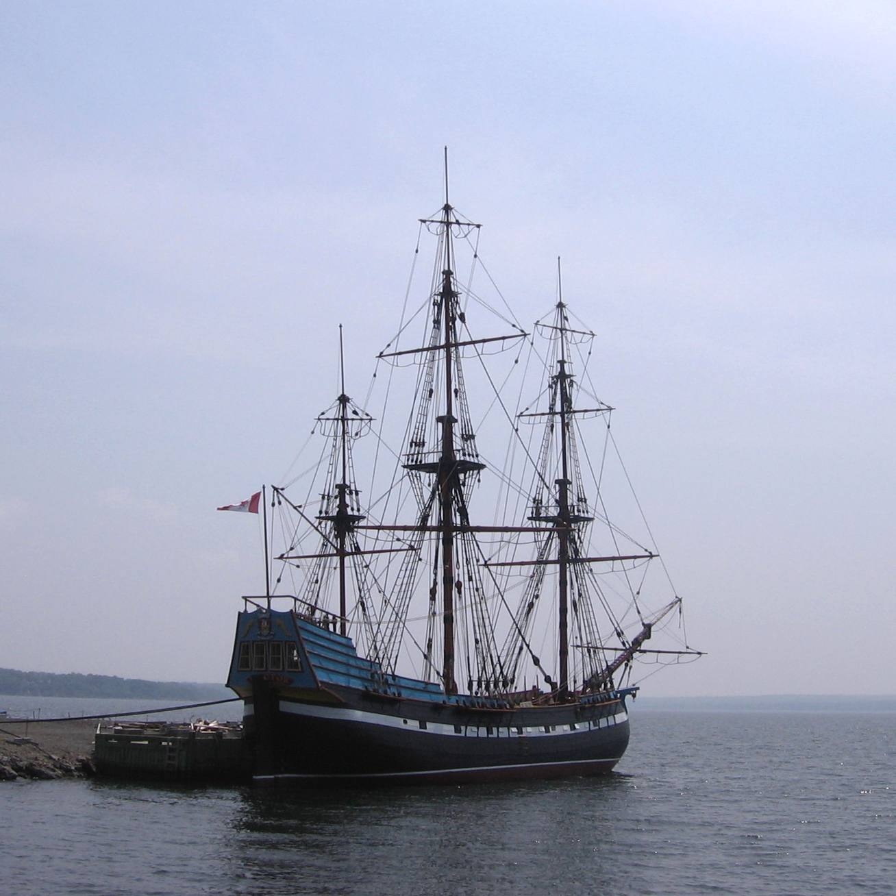 Photo of the replica shop Hector photographed on Pictou Waterfront, Nova Scotia.